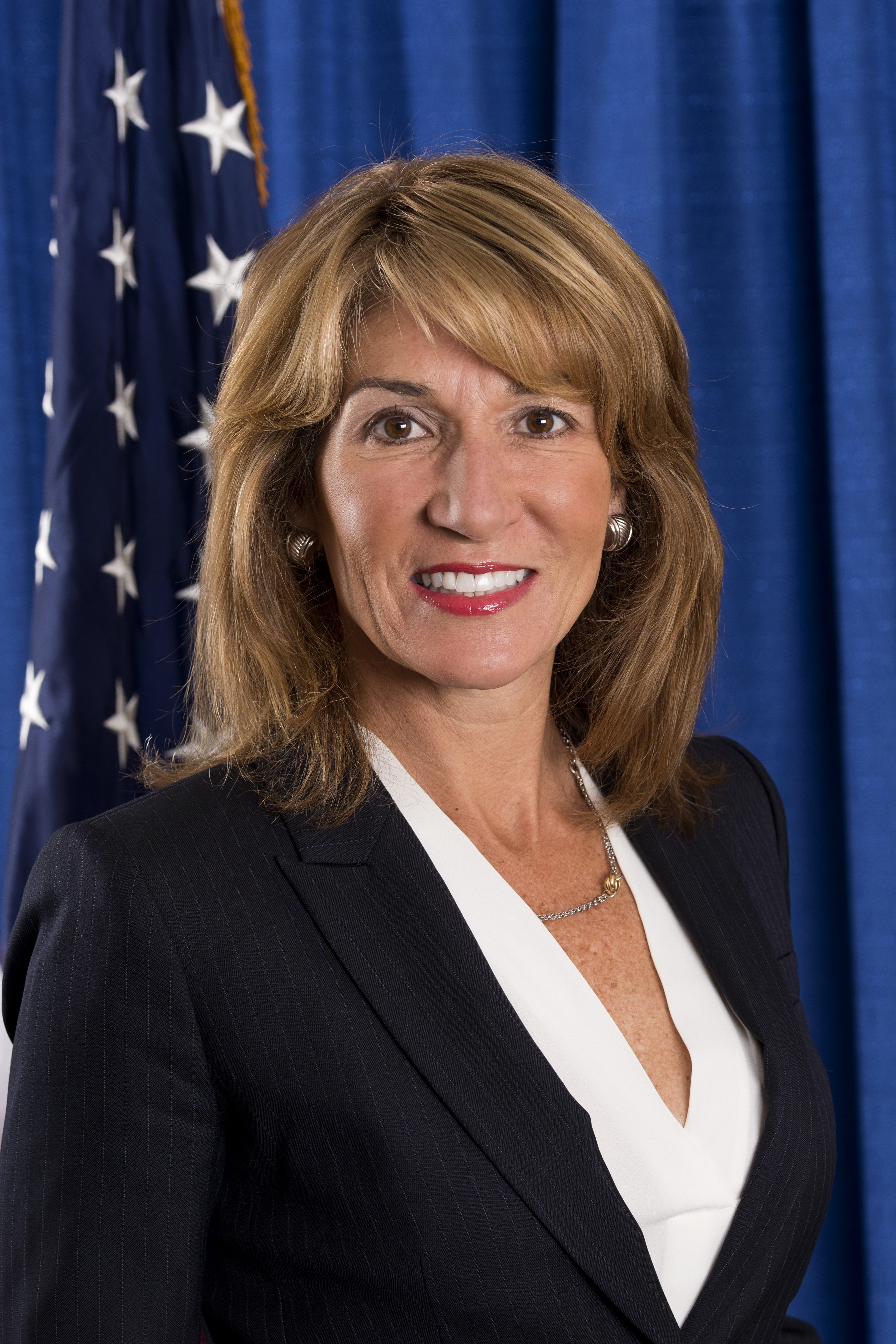 Karyn Polito was inaugurated on January 8th, 2015 as the 72nd Lieutenant Governor of the Commonwealth of Massachusetts.